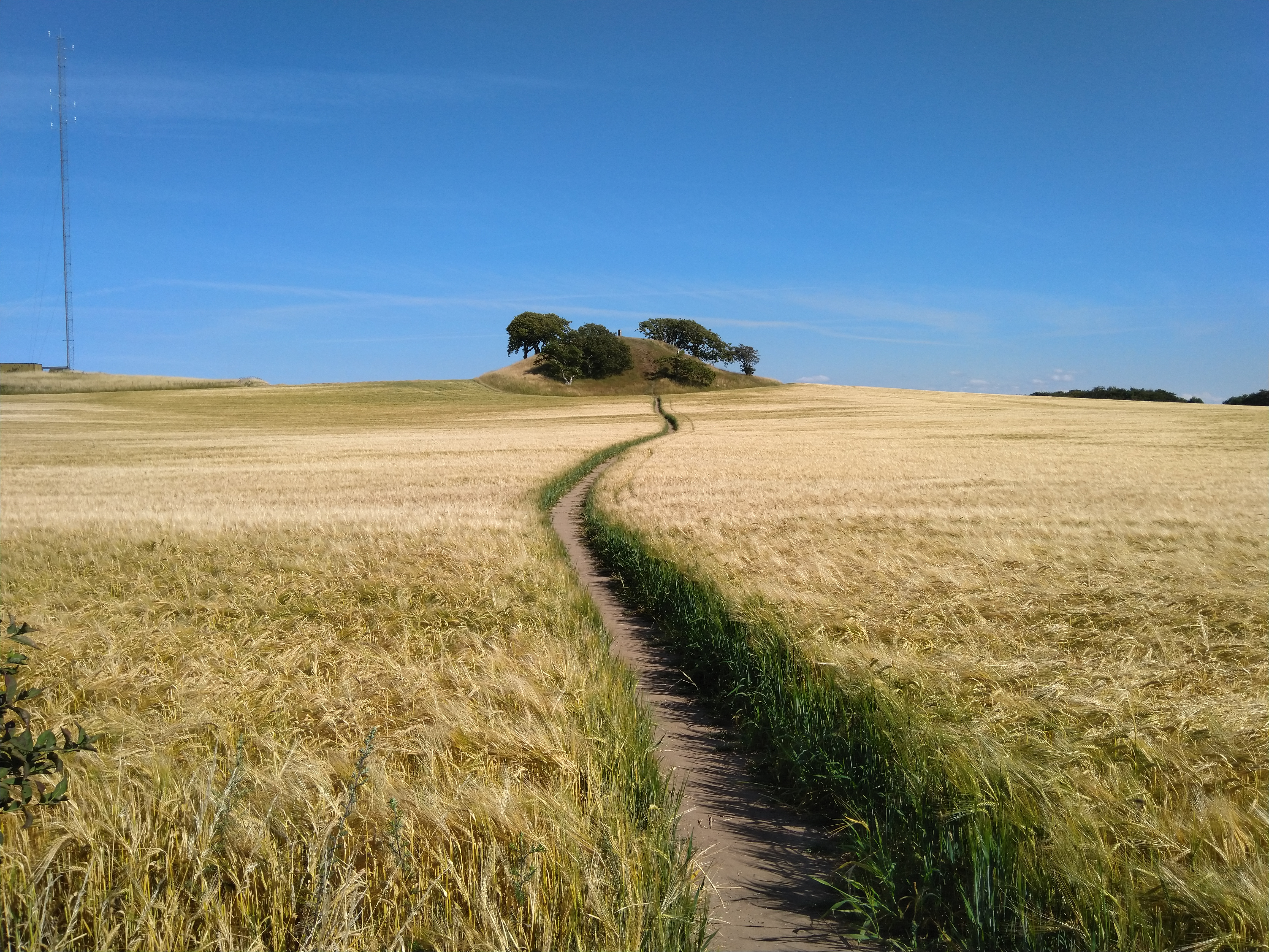 The tumulus Vejrhøj in Odsherred, Denmark.